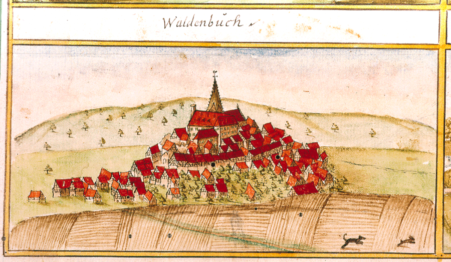 View of Waldenbuch from the forest register books created by Andreas Kieser